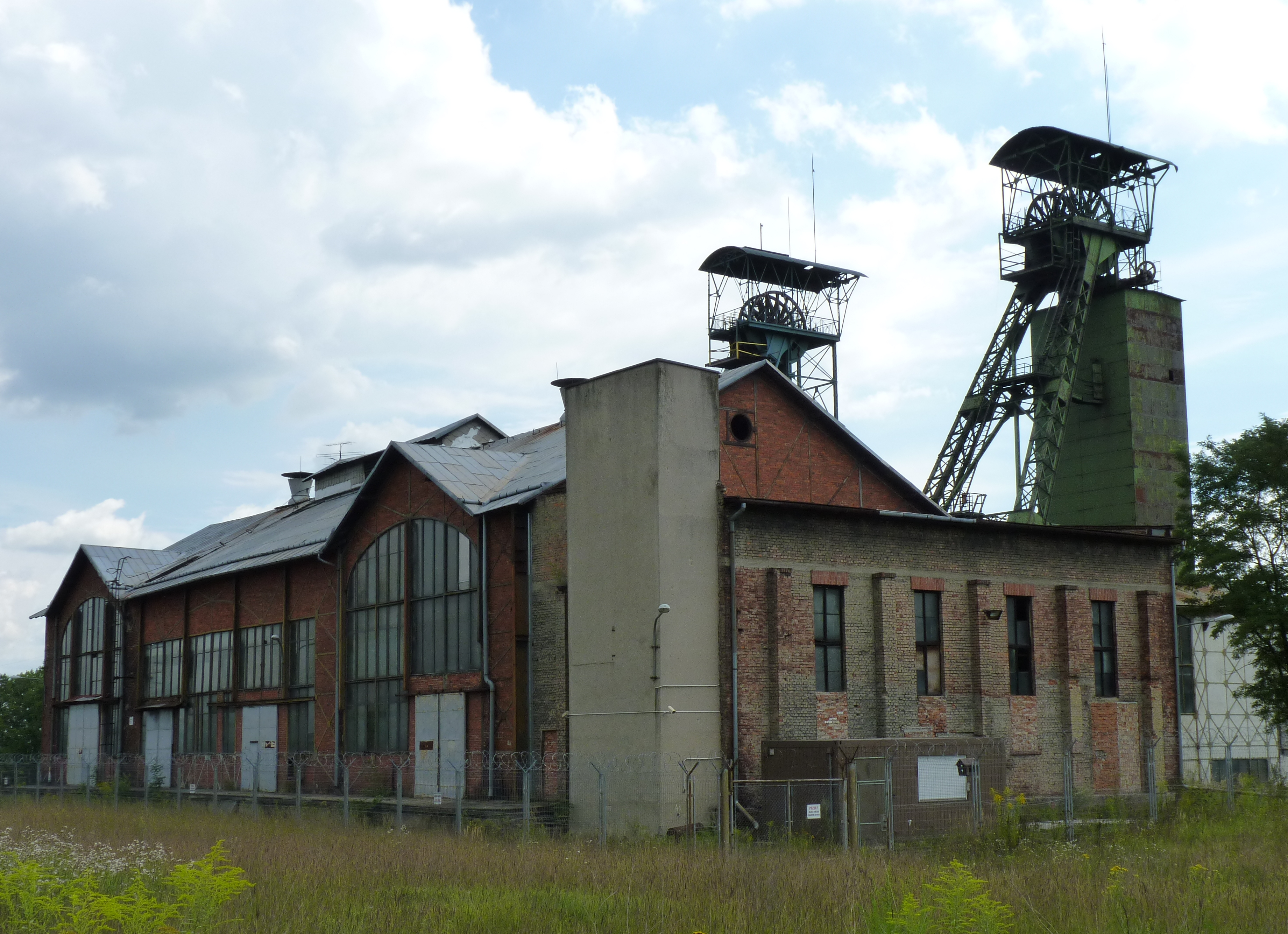 Coal mine Gabriela. Karviná, Karviná District, Moravian-Silesian Region, Czech Republic